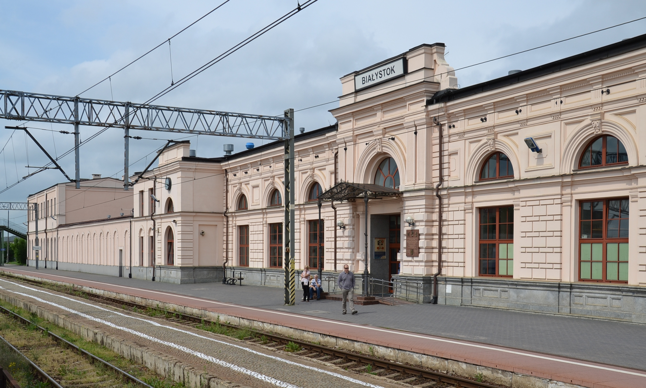 Białystok train station, Poland